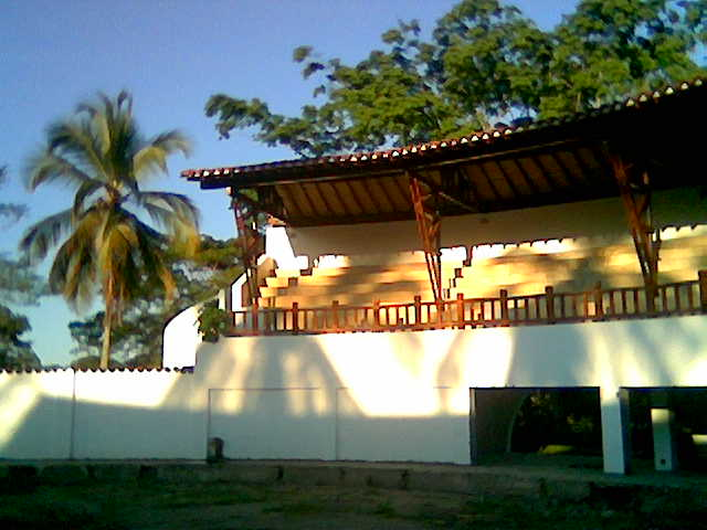 Hacienda Napoles bullring